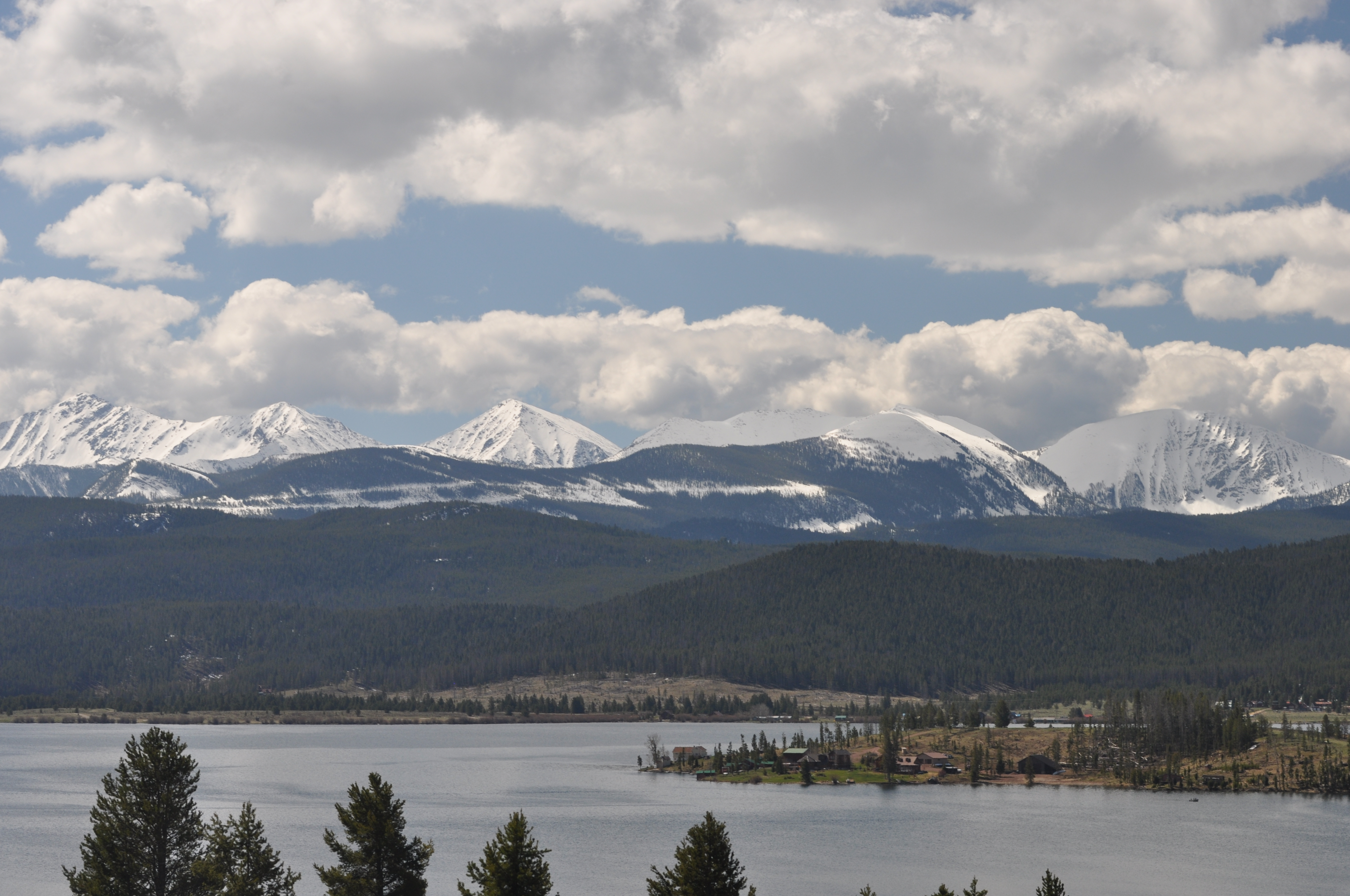 Georgetown Lake, Granite County, Montana May 2017